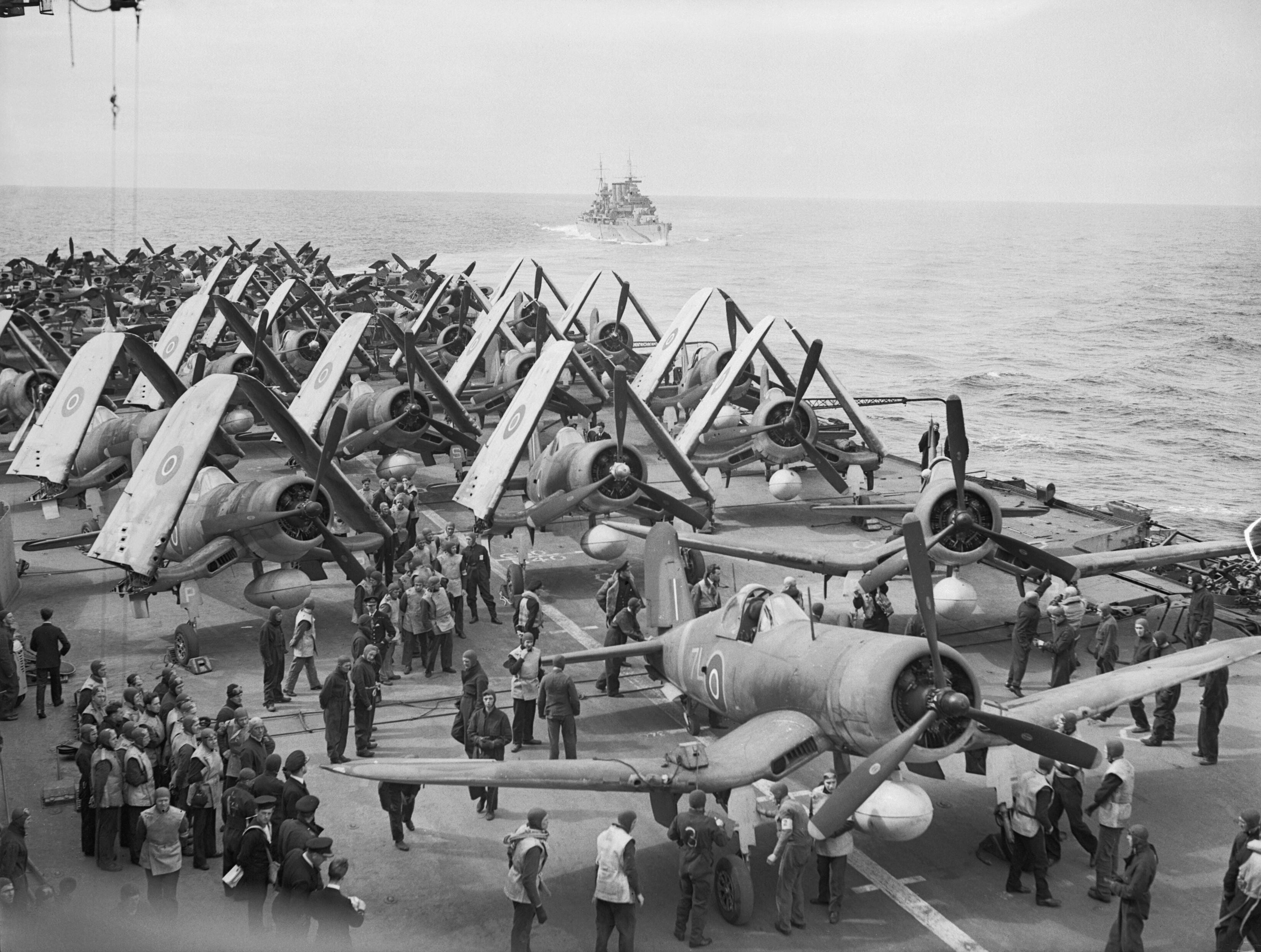 The Fleet Air Arm at Sea, July 1944 Fleet Air Arm Chance-Vought Corsair fighters, with Fairey Barracuda torpedo bombers behind, ranged on the flight deck of HMS FORMIDABLE, off Norway.